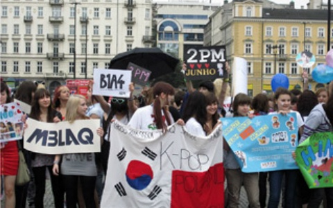 K-pop fans in Warsaw, Poland, outside the Korean cultural centre